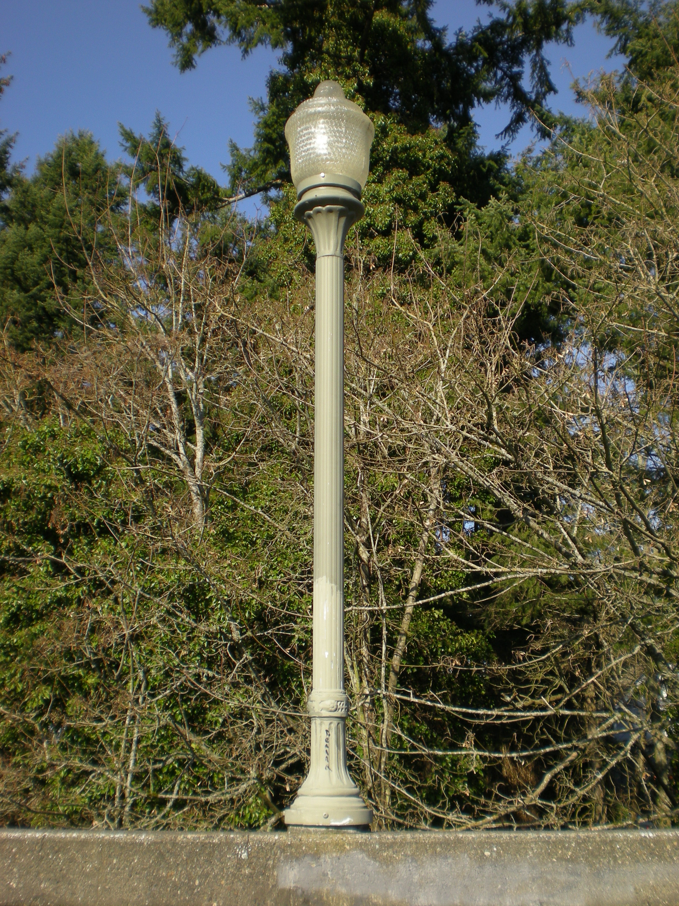 Lamppost, North 23rd Street Bridge in Tacoma, Washington